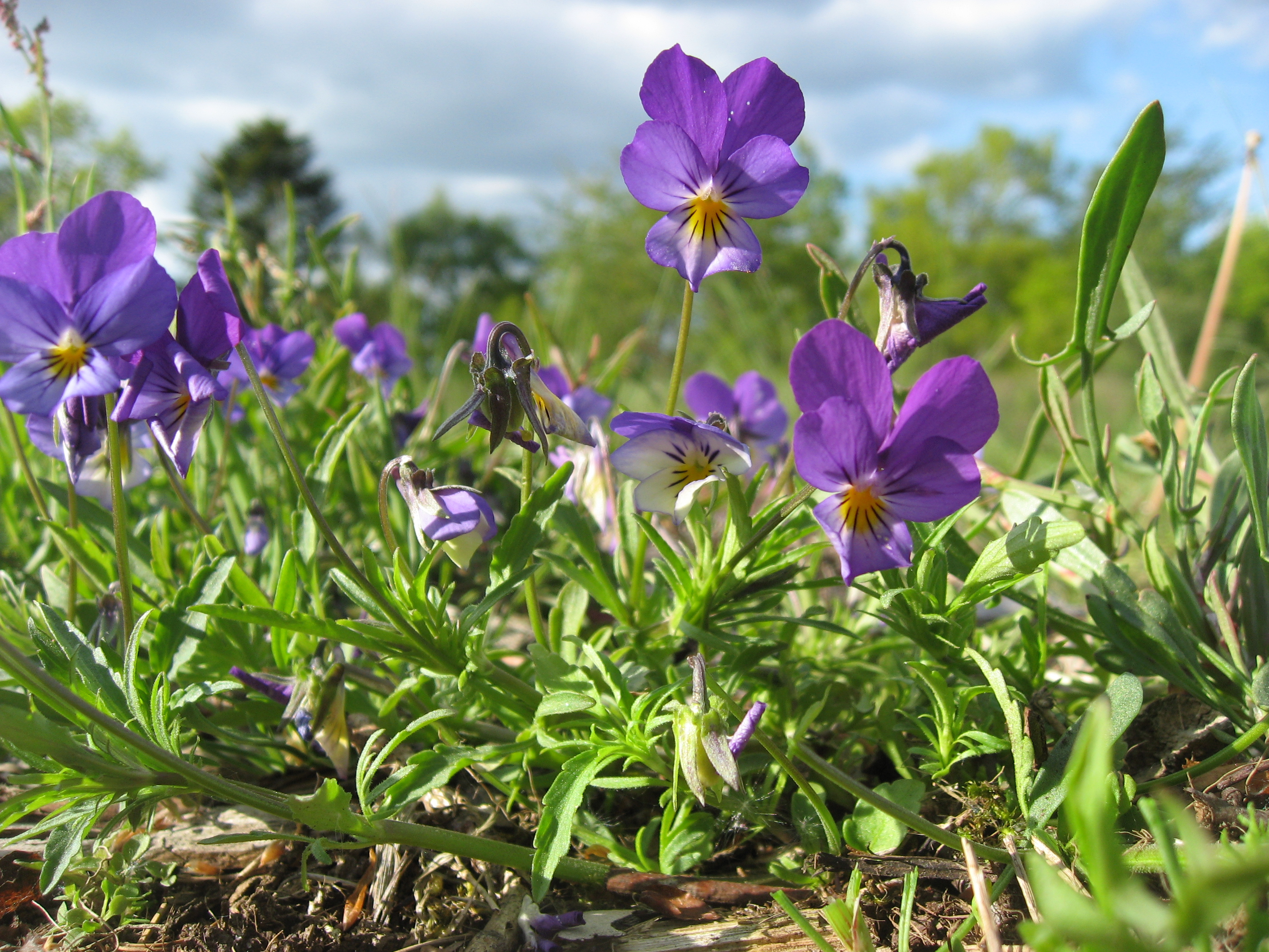 Viola tricolor subsp. tricolor (Wild Pansy) near Hald lake, Jutland, Denmark.